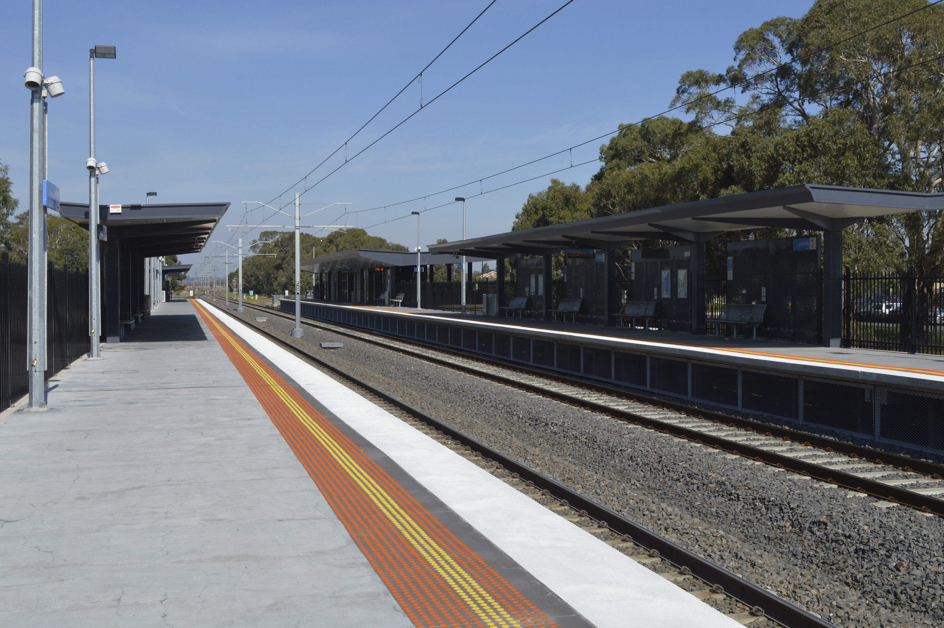 Station overview. Looking towards Cranbourne.